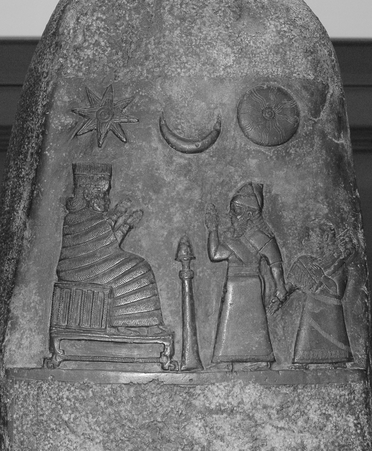 Kudurru (stele) of King Melishipak I (1186–1172 BC): the king presents his daughter to the goddess Nannaya. The crescent moon represents the god Sin, the sun the Shamash and the star the goddess Ishtar. Kassite period, taken to Susa in the 12th century BC as war booty.